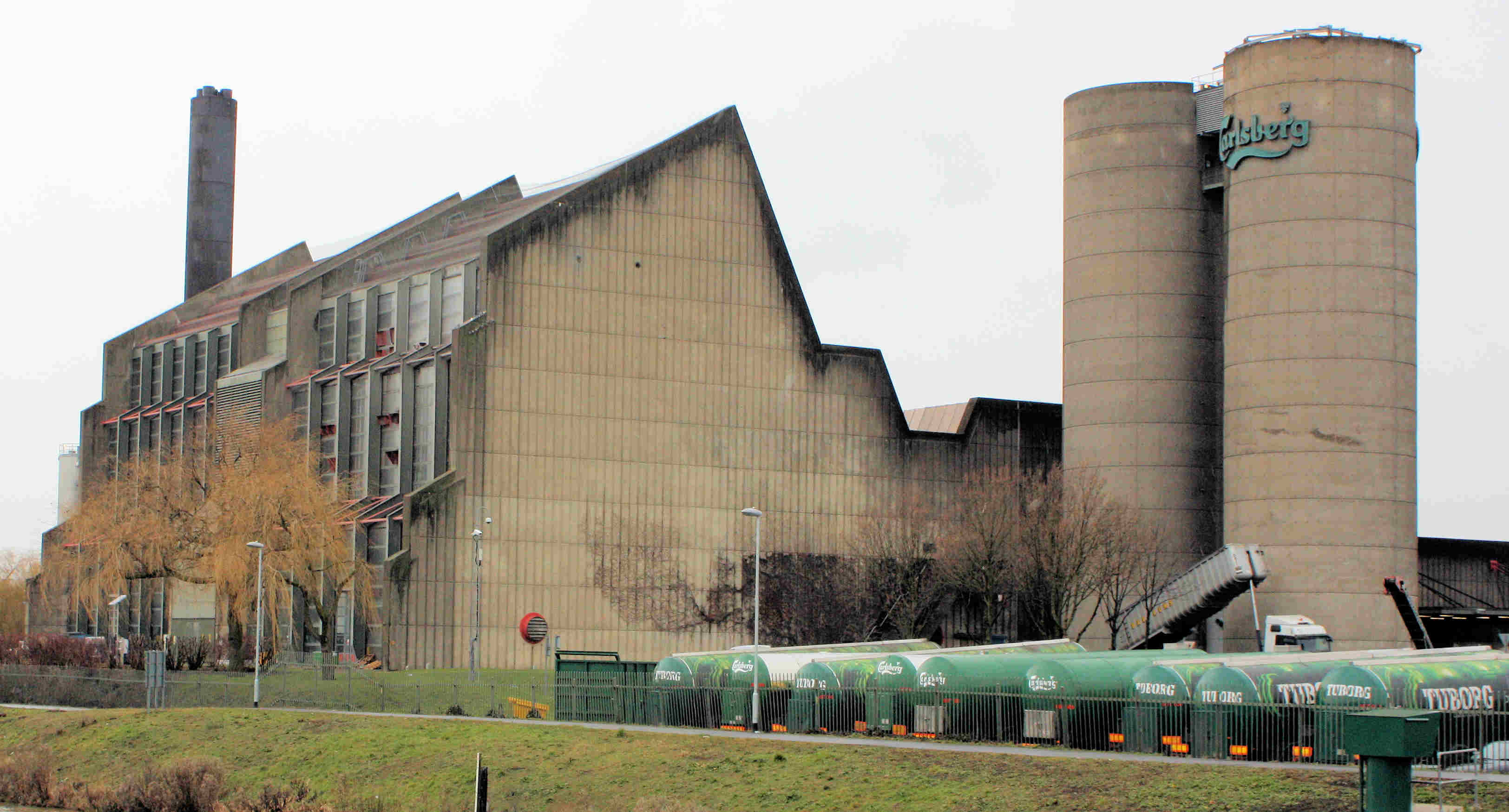 Carlsberg Brewery Northampton UK, from South Bridge, taken 26 February 2010, looking north-west